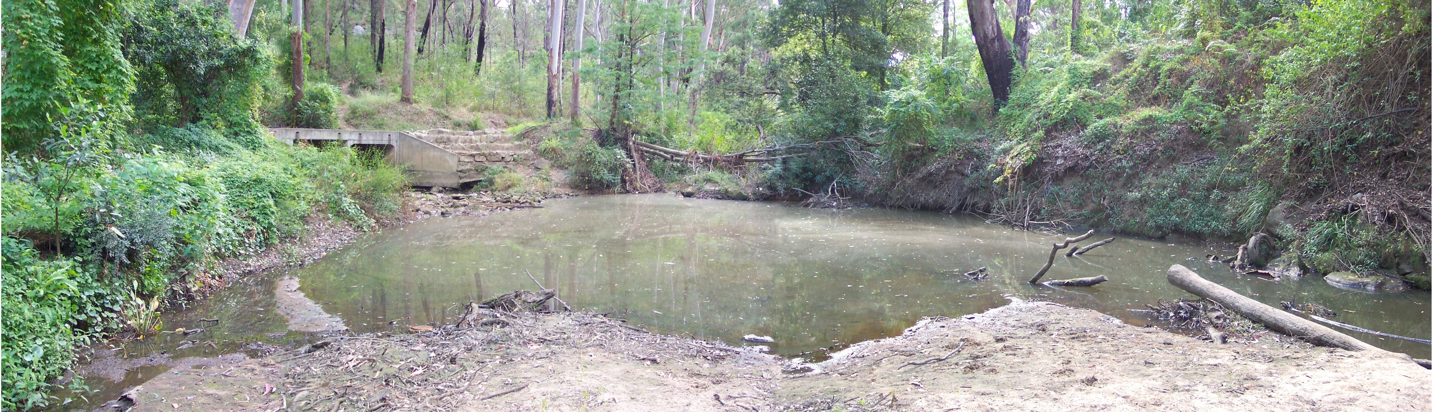 Brown's Waterhole on the Lane Cove River in New South Wales. This photograph was taken facing upstream. The bridge to the left is a fire access trail covering the tributary Terrys Creek.